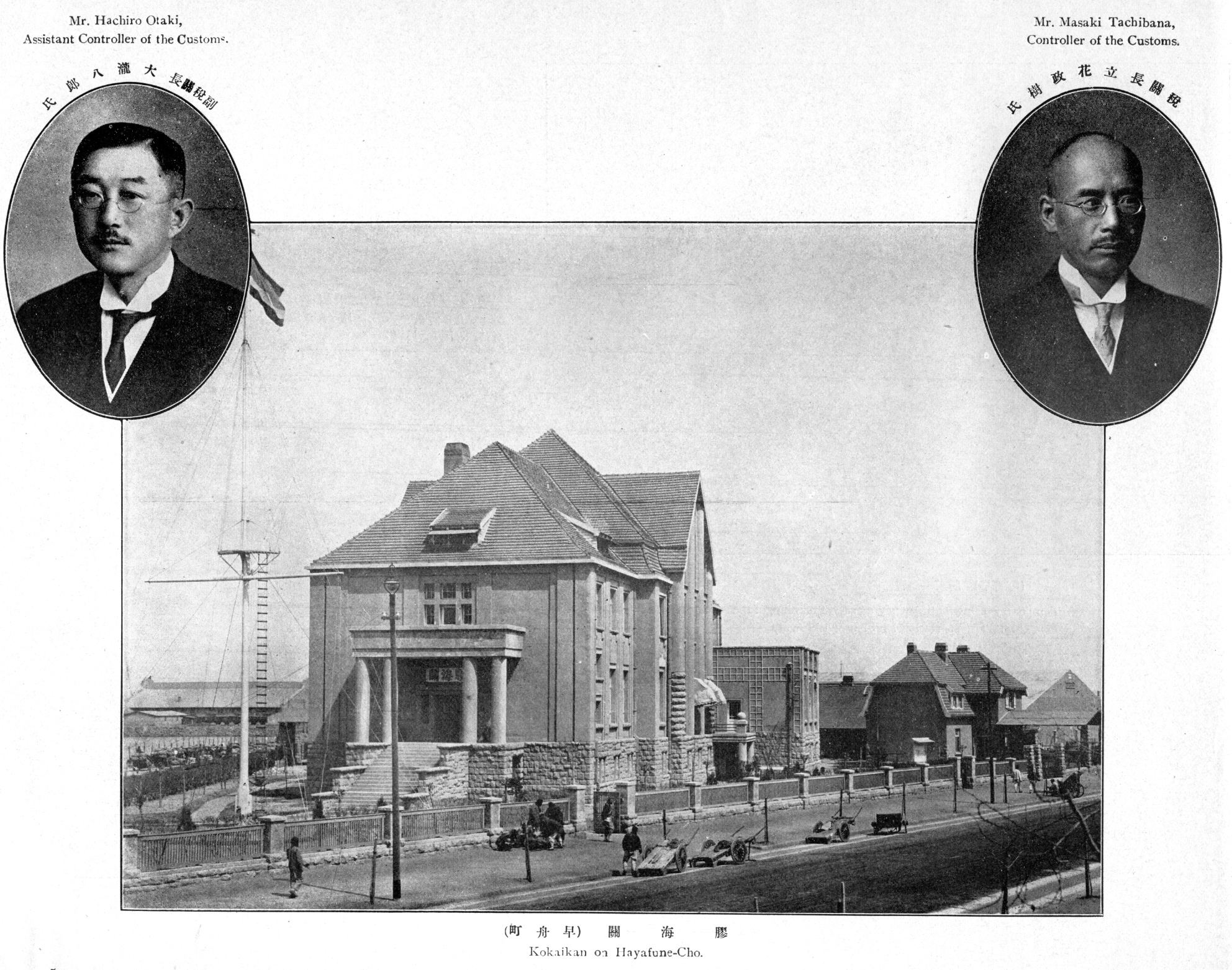 Qingdao's customs house, along with portraits of Hachiro Otaki, Assistant Controller of the Customs, and Masaki Tachibana, Controller of the Customs, during the time when Qingdao was under Japanese control